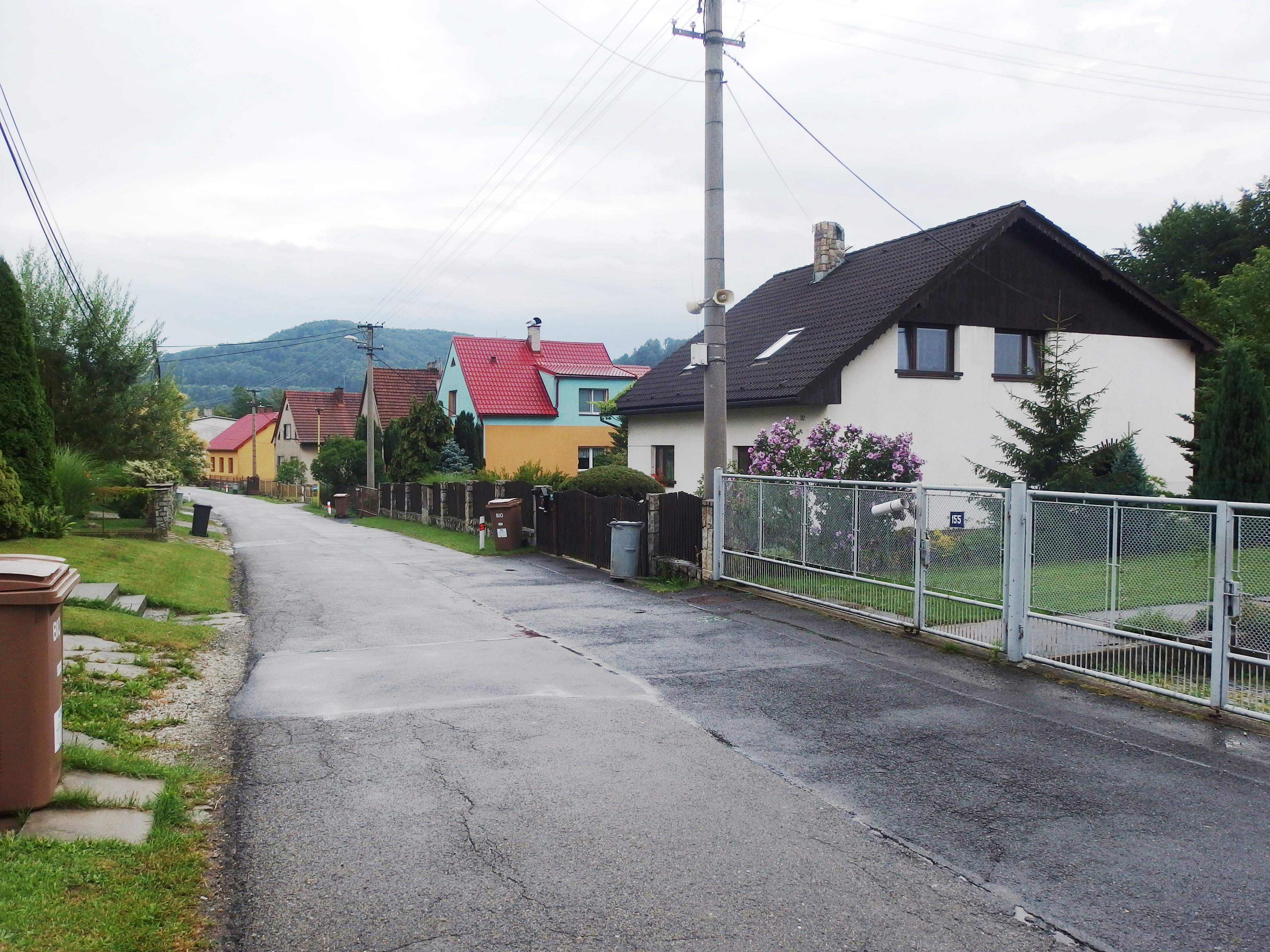 Kopřivnice, Nový Jičín District, Czech Republic, part Mniší.